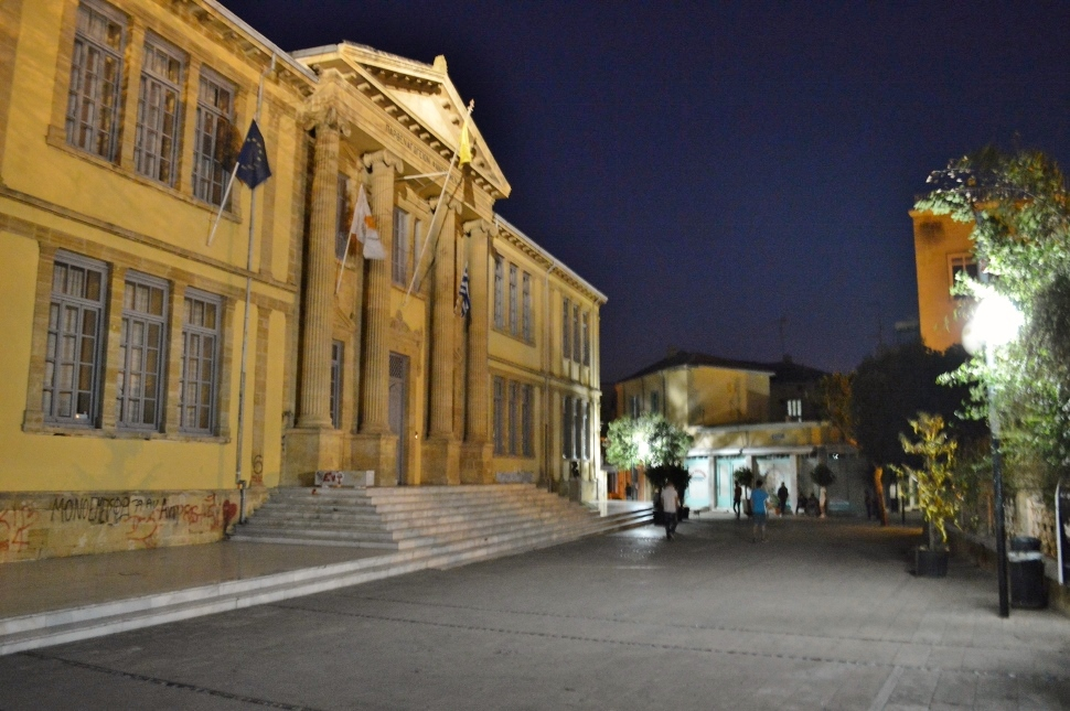 Faneromeni school building university of Cyprus by night Nicosia Republic of Cyprus